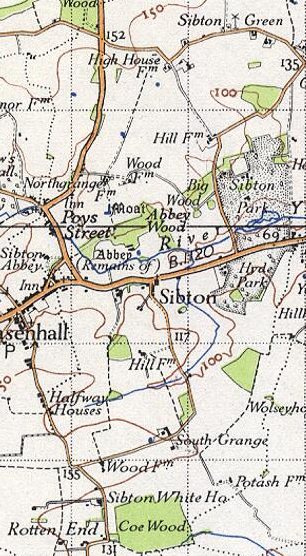 20th century map of Sibton created in 1945